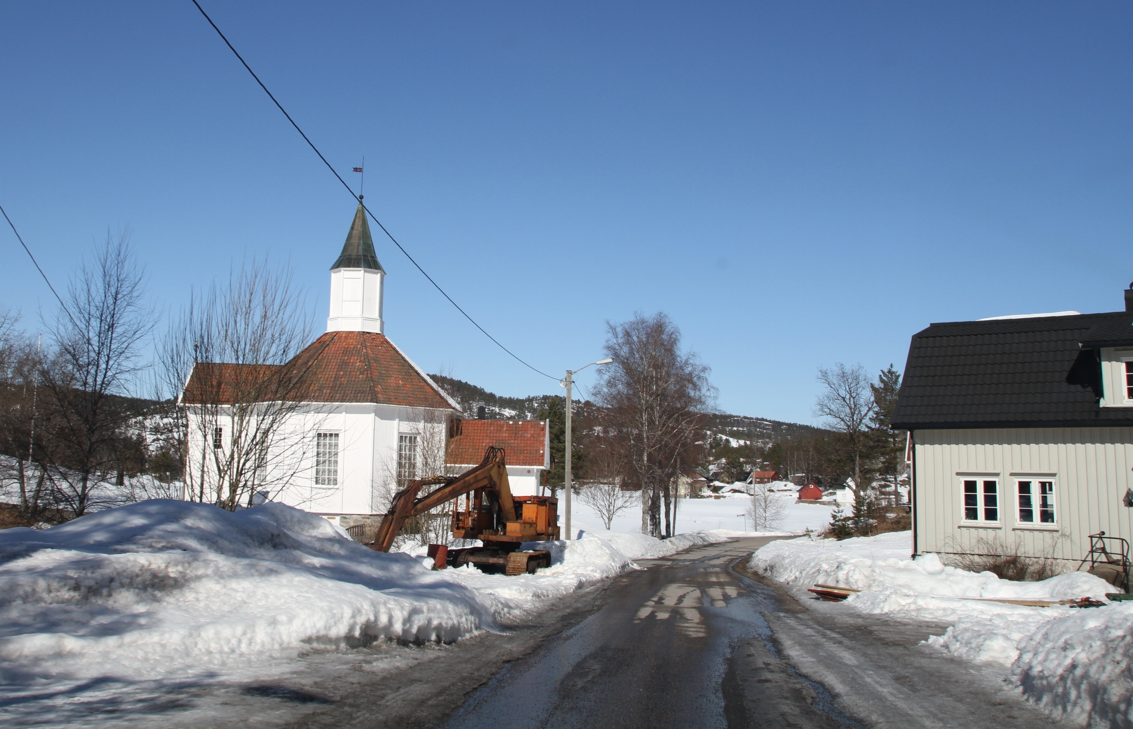 Herefoss kirke is the main (lutheran) chirch of the former Herefoss municipality, northern Birkenes municipality of the Aust-Agder county, Norway